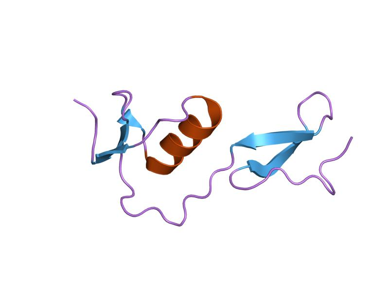 Cartoon representation of the molecular structure of protein registered with 1lr9 code.